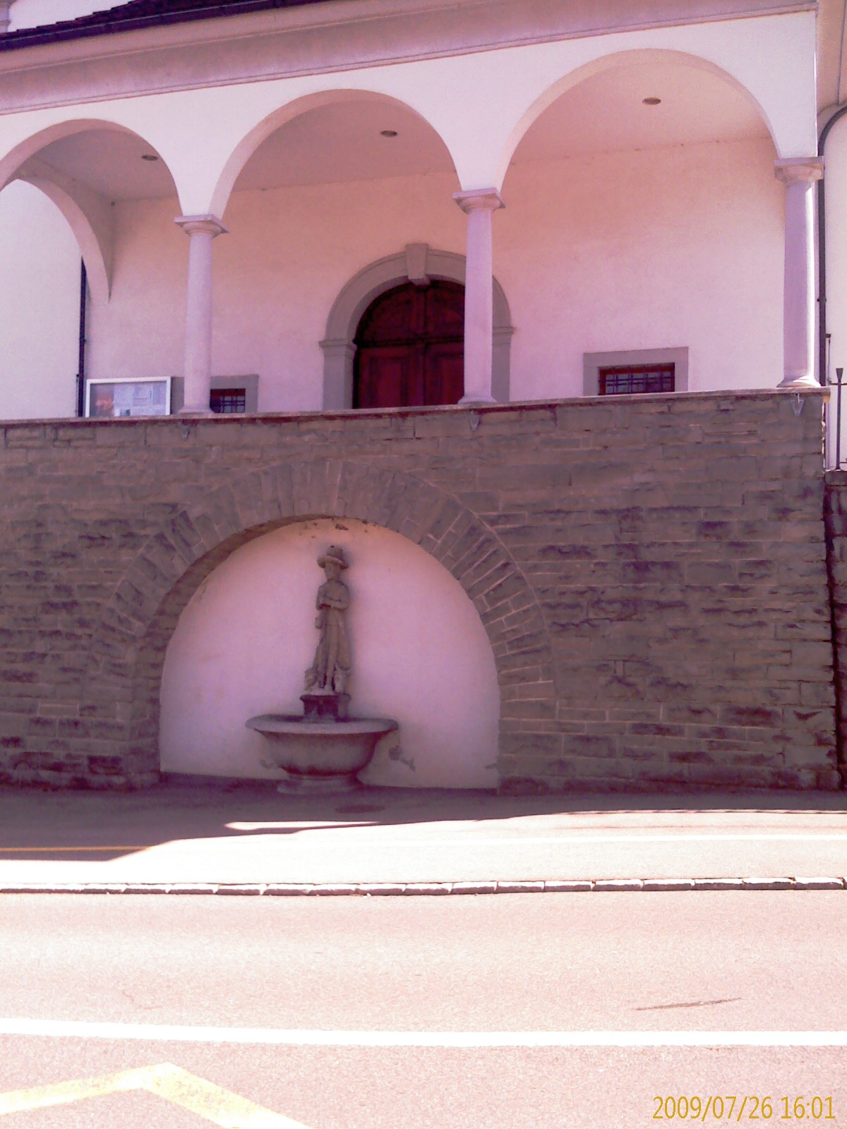 Fountain before the church of Hellbühl, municipality Neuenkirch, canton of Luzern, SwitzerlandEsperanto: Puto antaŭ la preĝejo de Hellbühl, komunumo Neuenkirch, Kantono Lucerno, Svislando